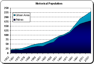 Author: user:Energon Data from: "The population of Greece in the second half of the 20th century". Hellenic Republic. National Statistical Service of Greece. Athens 1980 "Statistical Yearbook of Greece" Hellenic Republic. National Statistical Service of Greece. Athens 1980 "2001 Census" of the National Statistical Service of Greece.